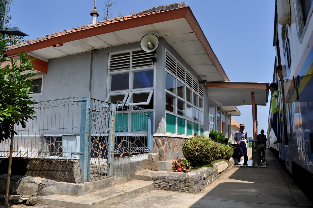 Cipunegara train station in West Java